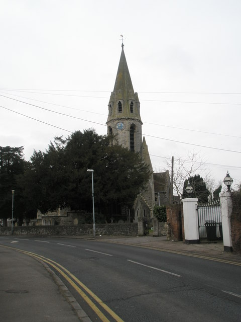 Bend in London Road